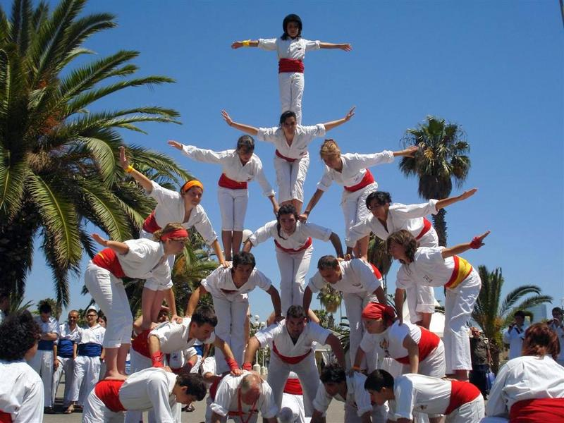 Figure of the Falcons de Barcelona named Avet